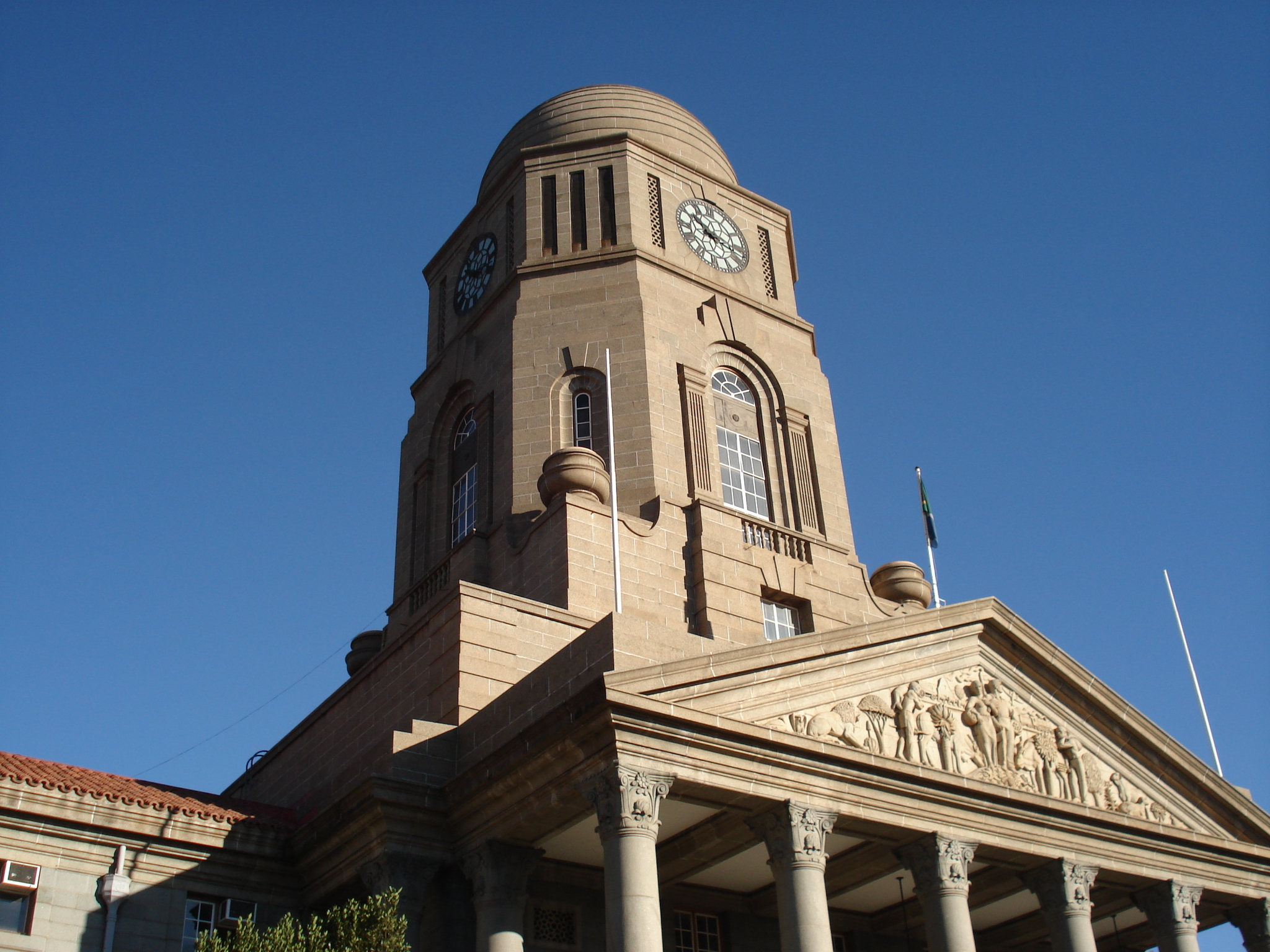 This media shows a South African Protected Site with SAHRA file reference [1].